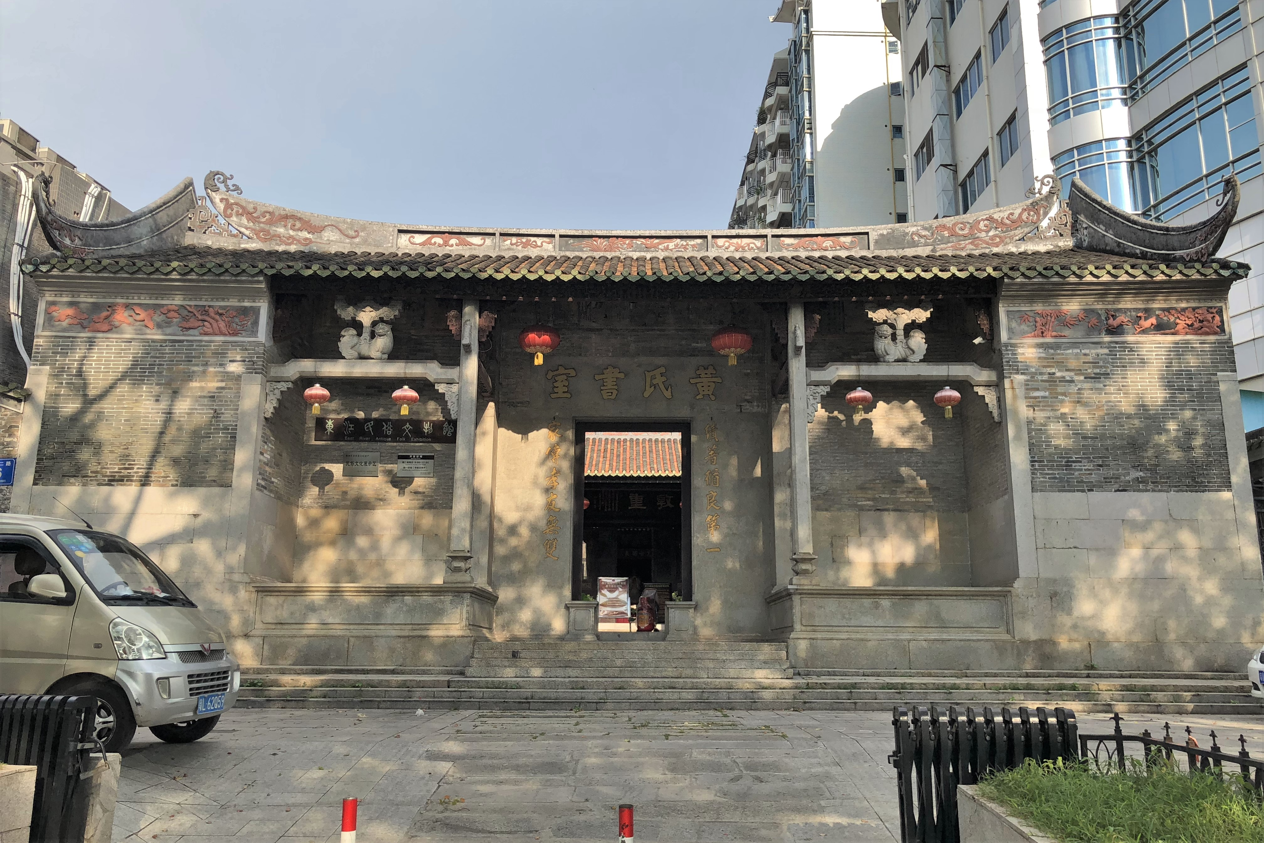 Huang Shi Sanctum